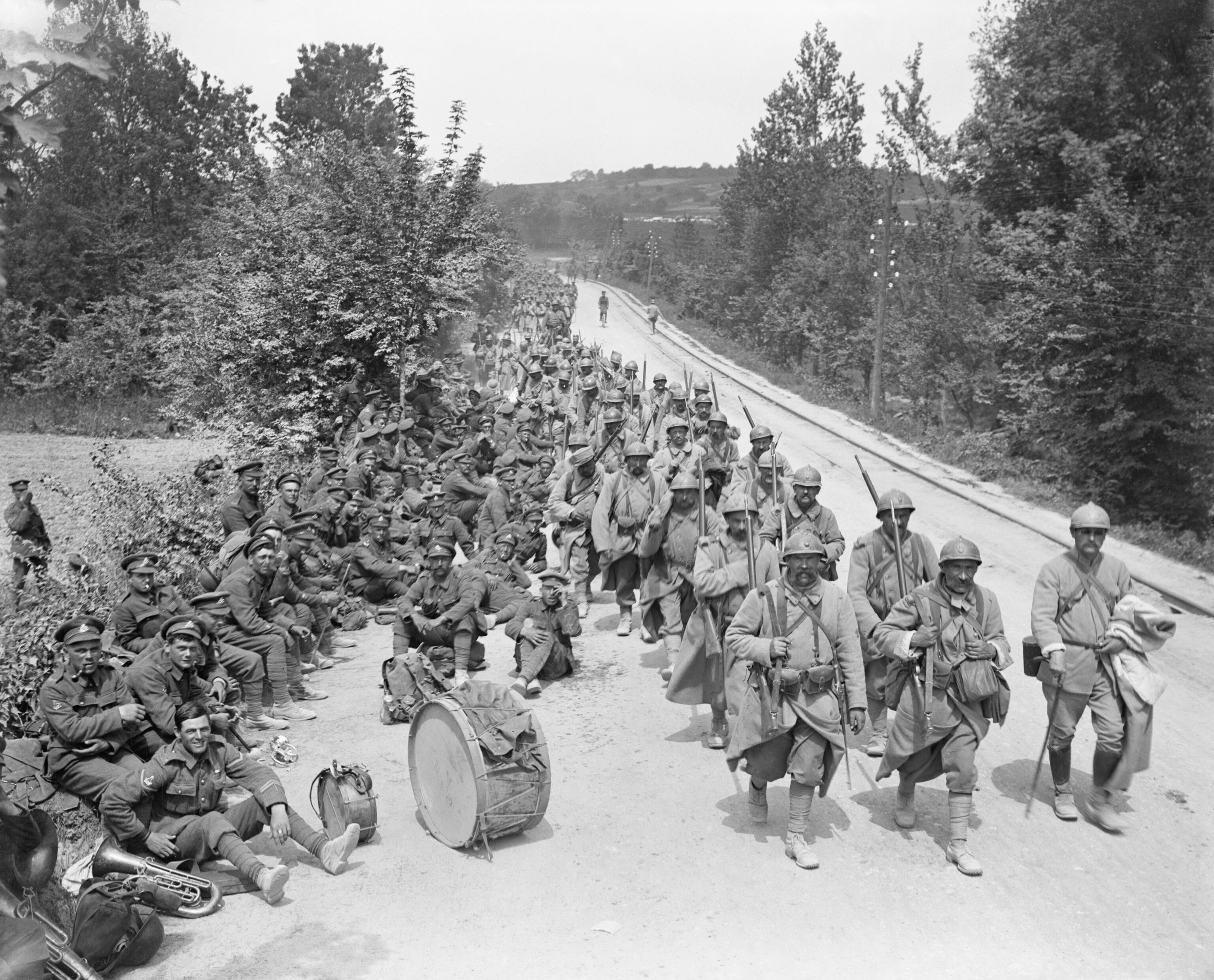 The German Spring Offensive, March-july 1918 The Third Battle of the Aisne. French infantry coming back through Passy-sur-Marne pass British regimental band resting by the roadside, 29 May 1918.